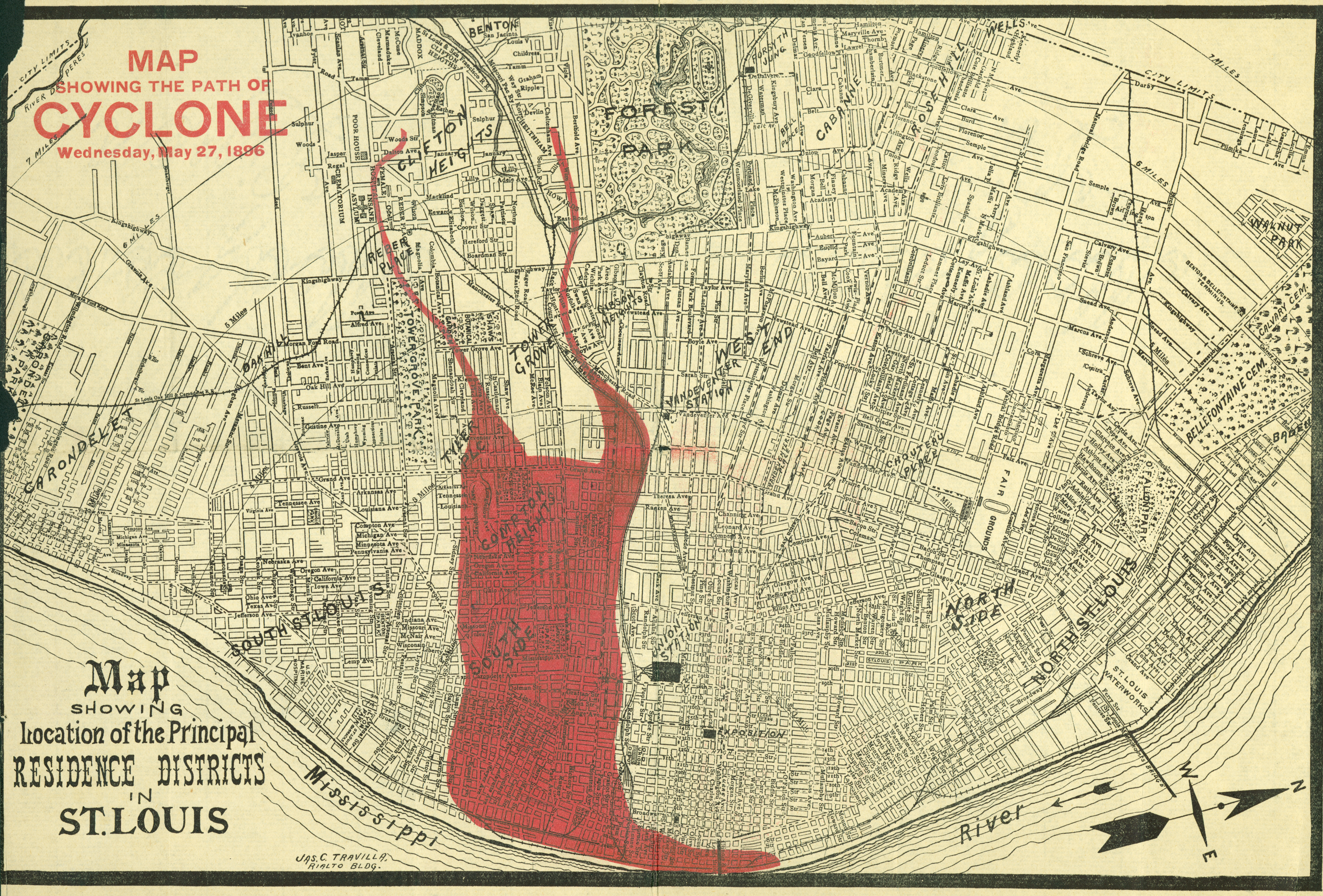 Title: "Map showing the path of the Cyclone, Wednesday, May 27, 1896." (superimposed on Map showing location of the Principal Residence Districts in St. Louis). In fact, it was the path of destruction of the 1896 St. Louis–East St. Louis tornado.